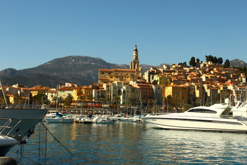 The city of Menton, France, seen from the Quai Napoleon III with old town in the Background.